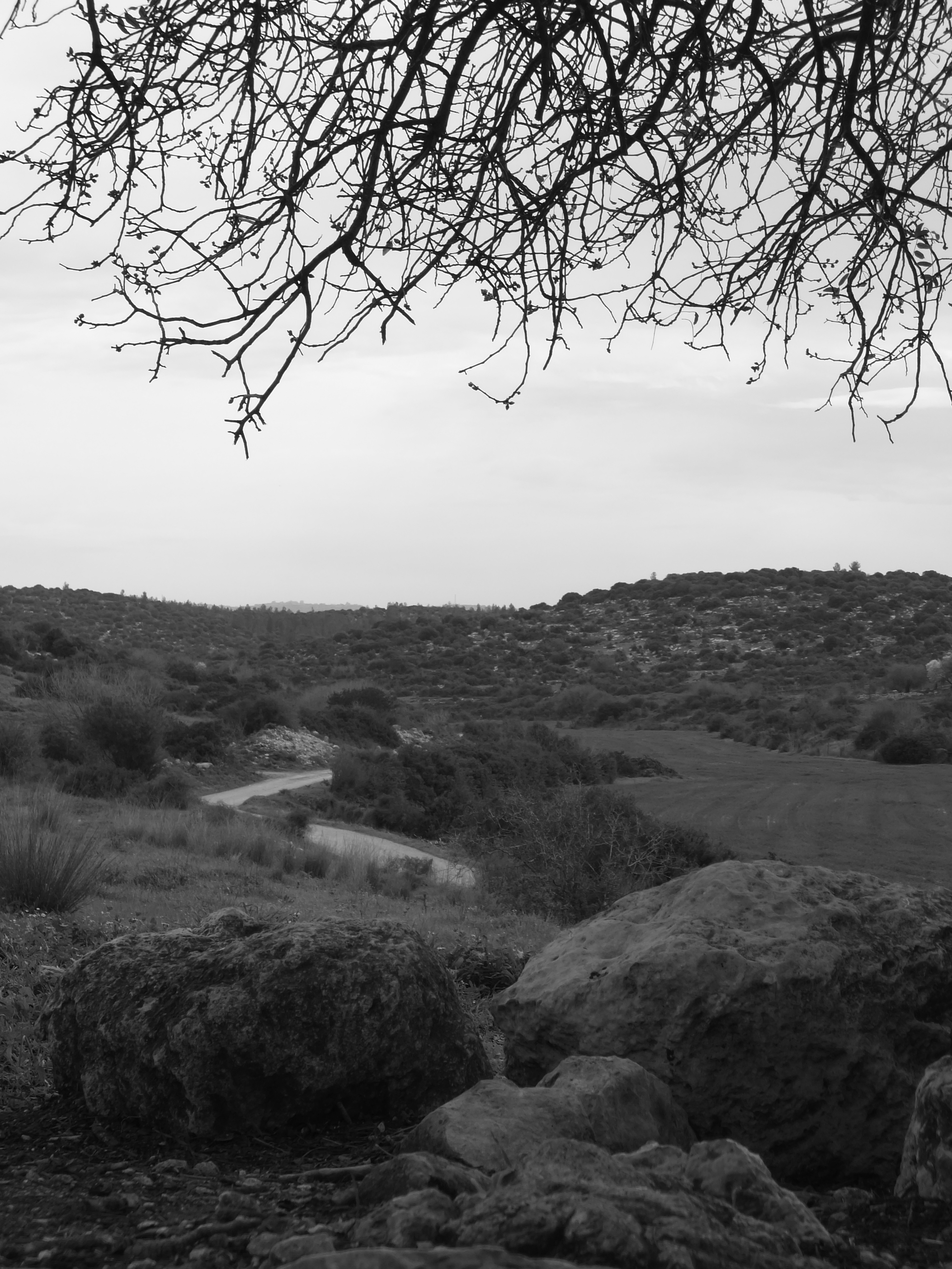 Black & white photograph of rural mountainous district in Judea